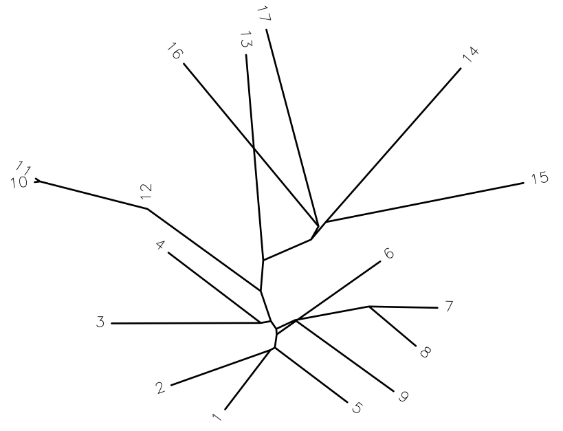 Shows relation of orthologous proteins to KIAA0565